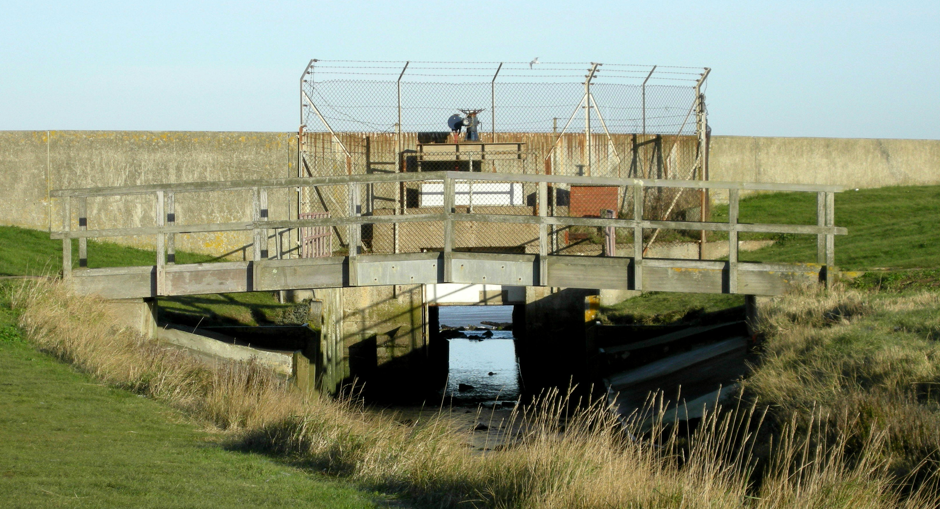 Site of abandoned and drowned village Hampton-on-Sea, Herne Bay, Kent, England. Source of identification of site: Martin Easdown, Adventures in Oysterville, (Michael's Bookshop, Ramsgate, 2008)